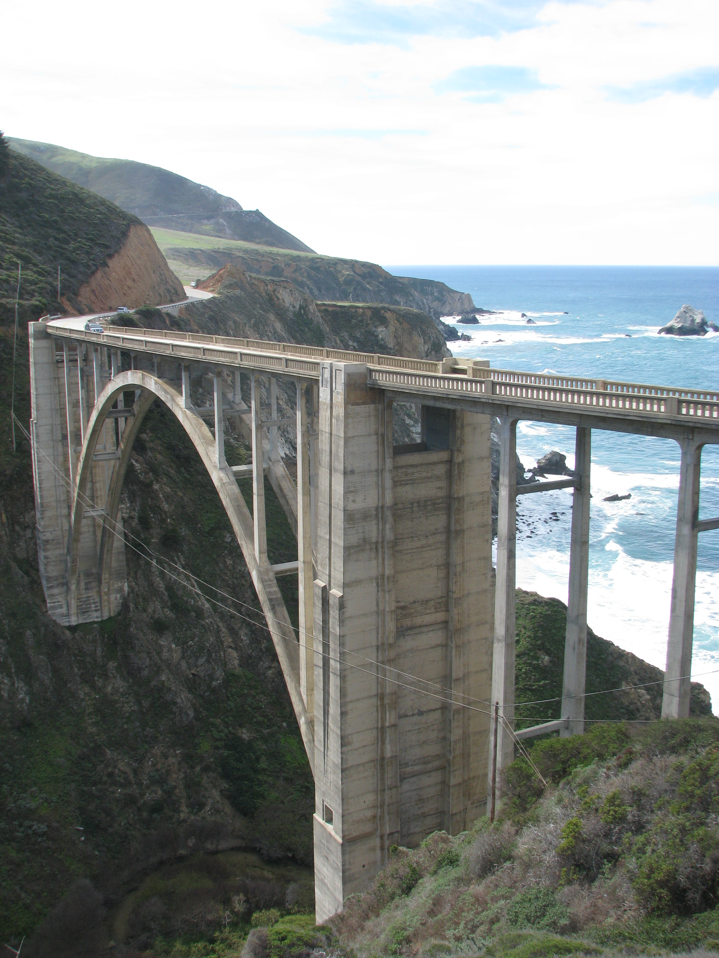 Bixby Creek Arch Bridge (seen from northeast corner) in the Ca-1.